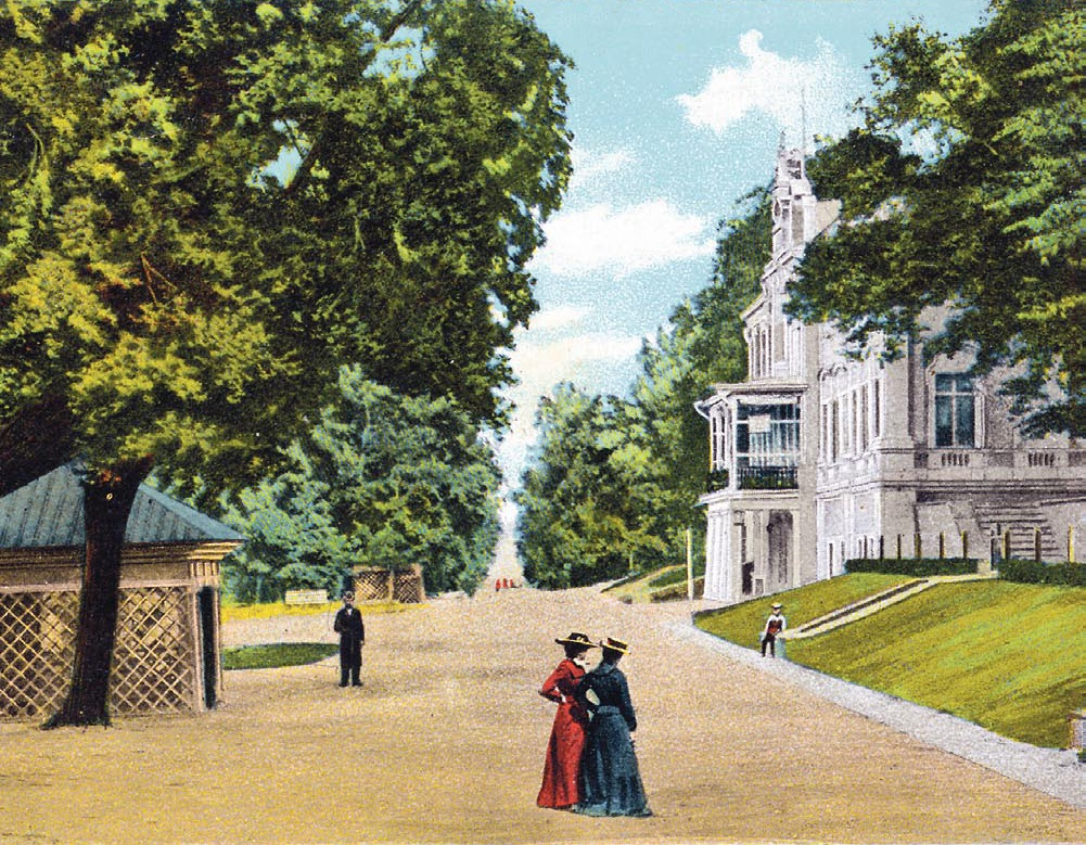 The front of the Kadriorg Palace c. 1910.